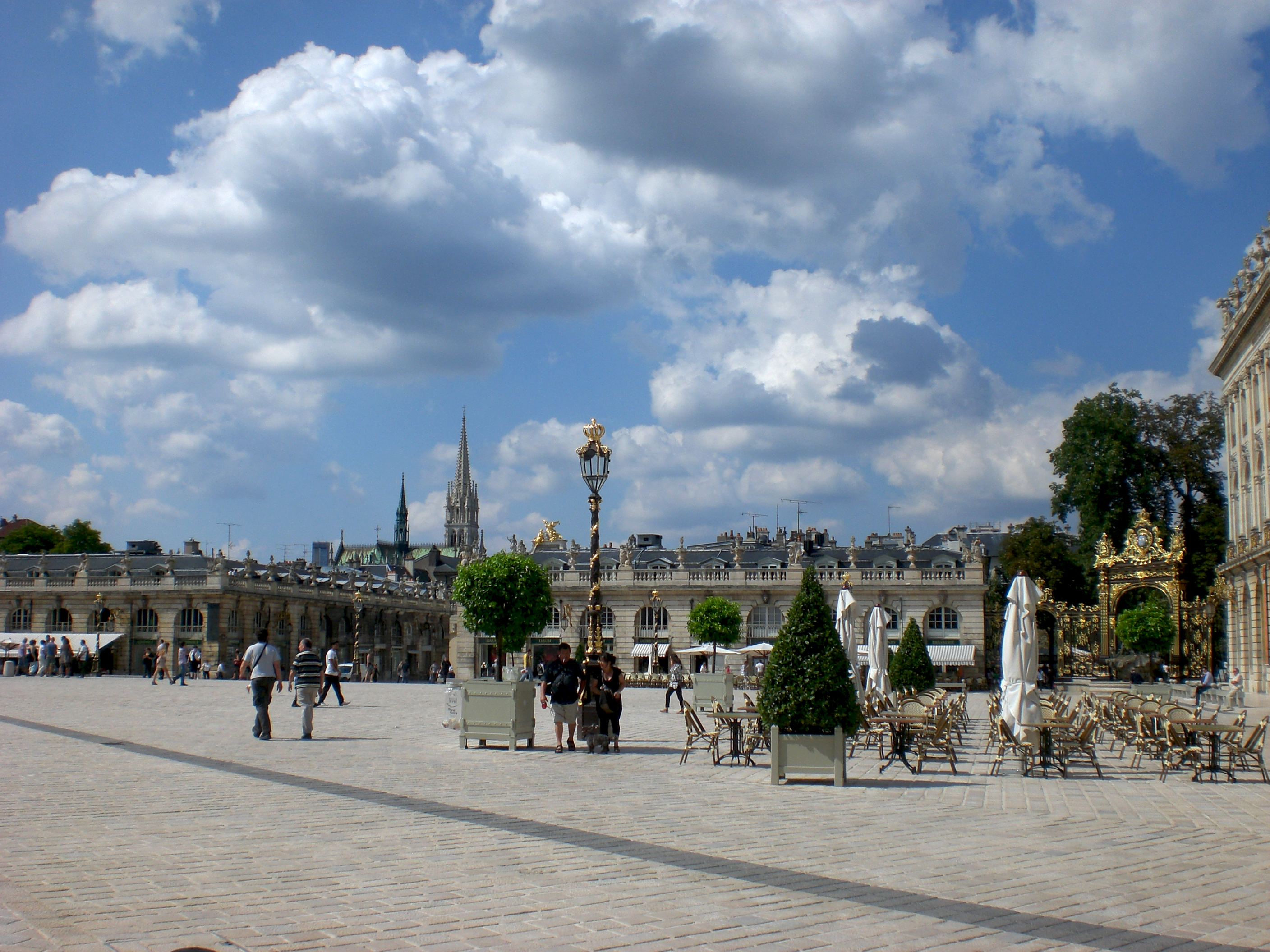 Nancy, Place Stanislas